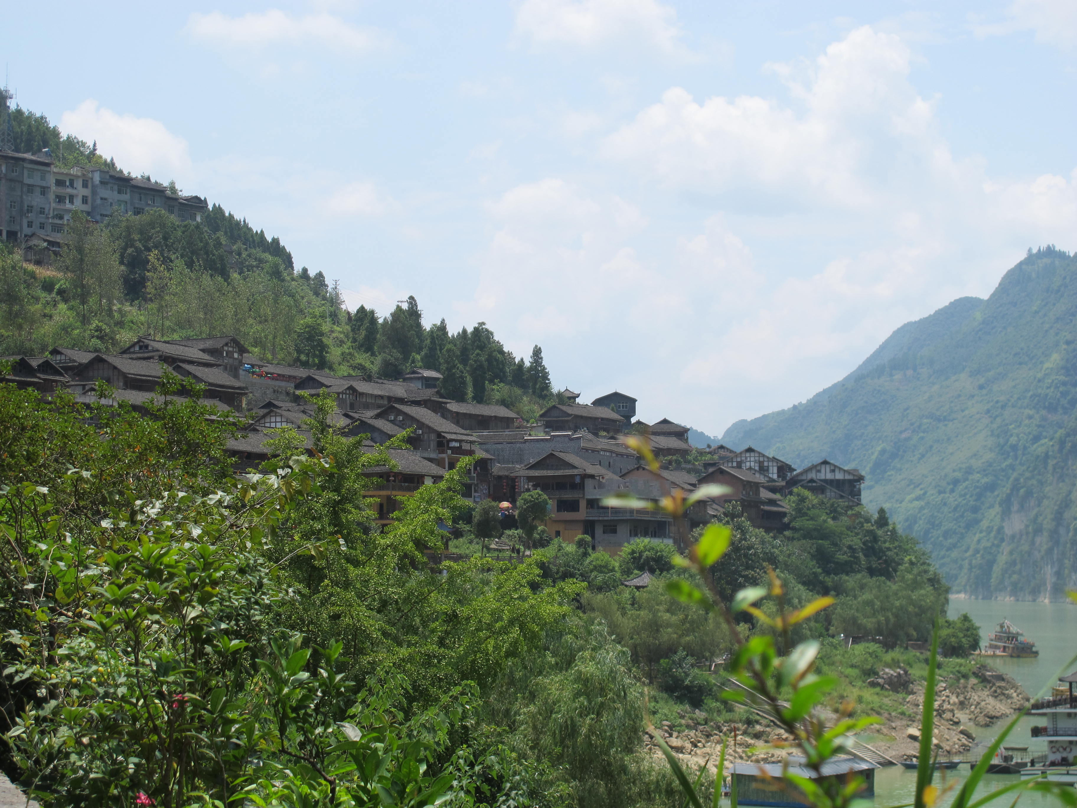 Gongtan ancient town